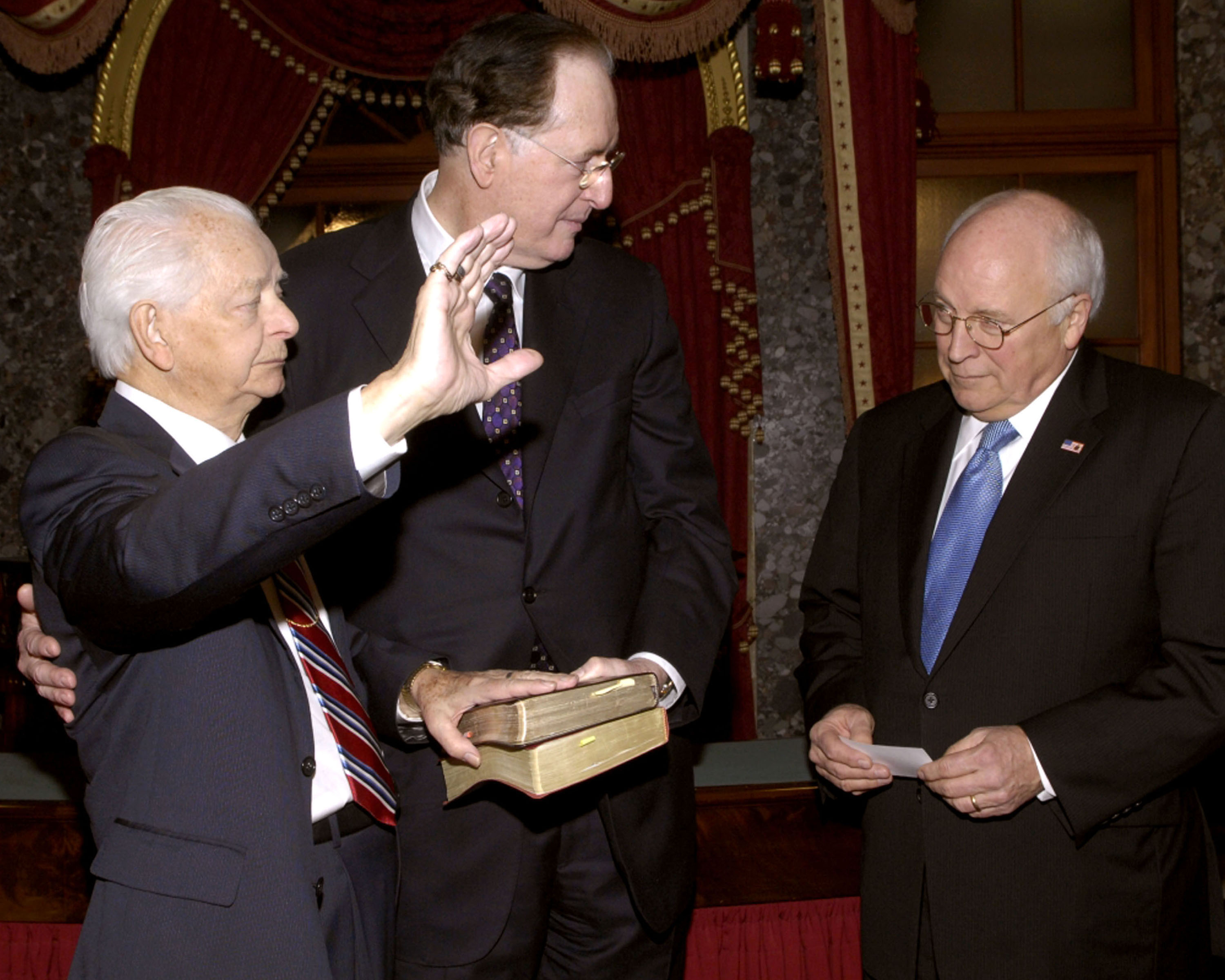 Dean of the US Senate Robert Byrd (D-WV), accompanied by fellow Senator Jay Rockefeller (D-WV), takes the Oath of Office for a record ninth consecutive time in the Senate.